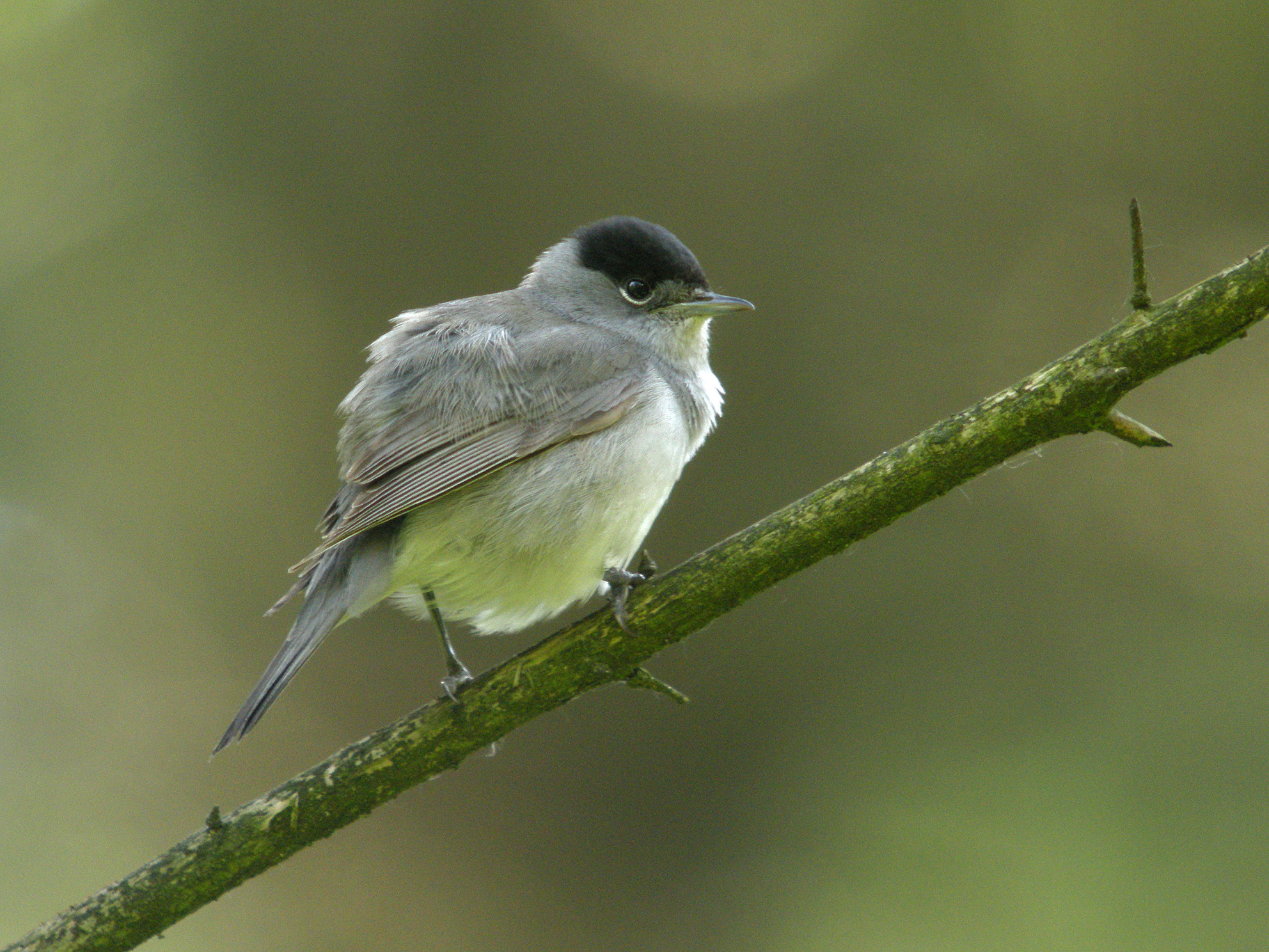 Digiscoping with Swarovski ATM 80 HD 30 X, Coolpix P5100 (Adapter DCB)